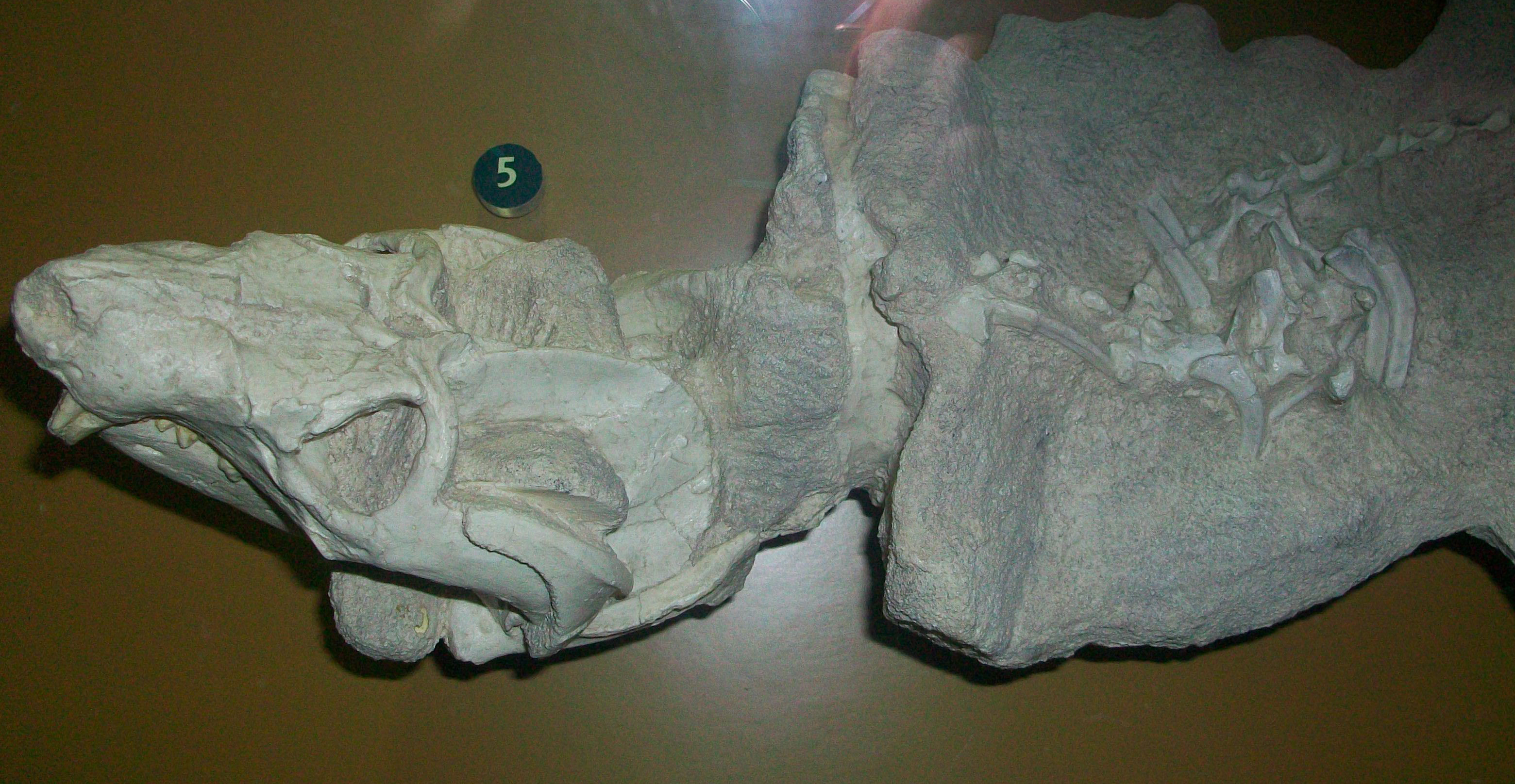 Fossil of a probainognathian cynodont from Madagascar in the Field Museum of Natural History.